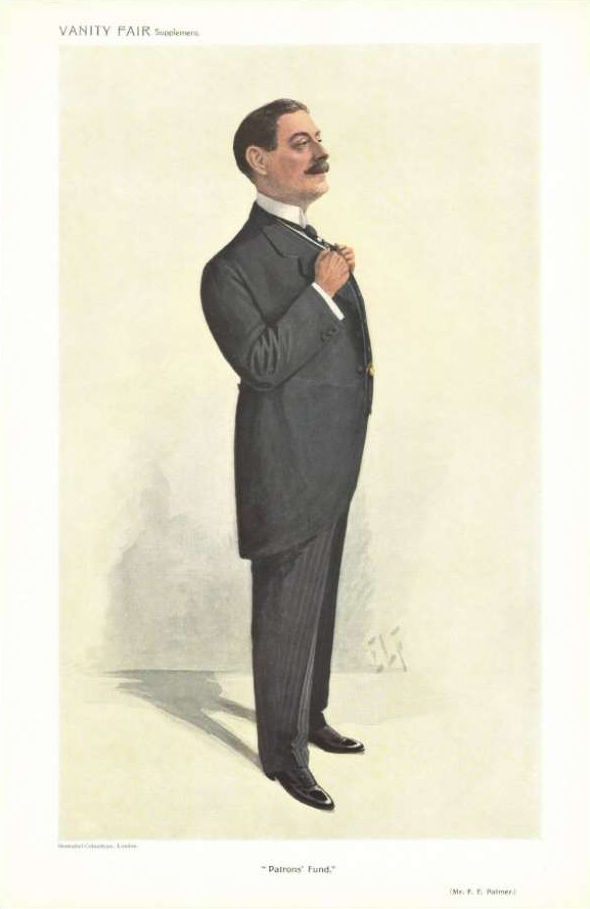 Men of the Day No.1182: Caricature of Mr SE Palmer. Caption reads: "Patron's Fund"